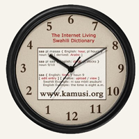 swahily clock